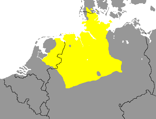 The language region of Western Low Saxon.